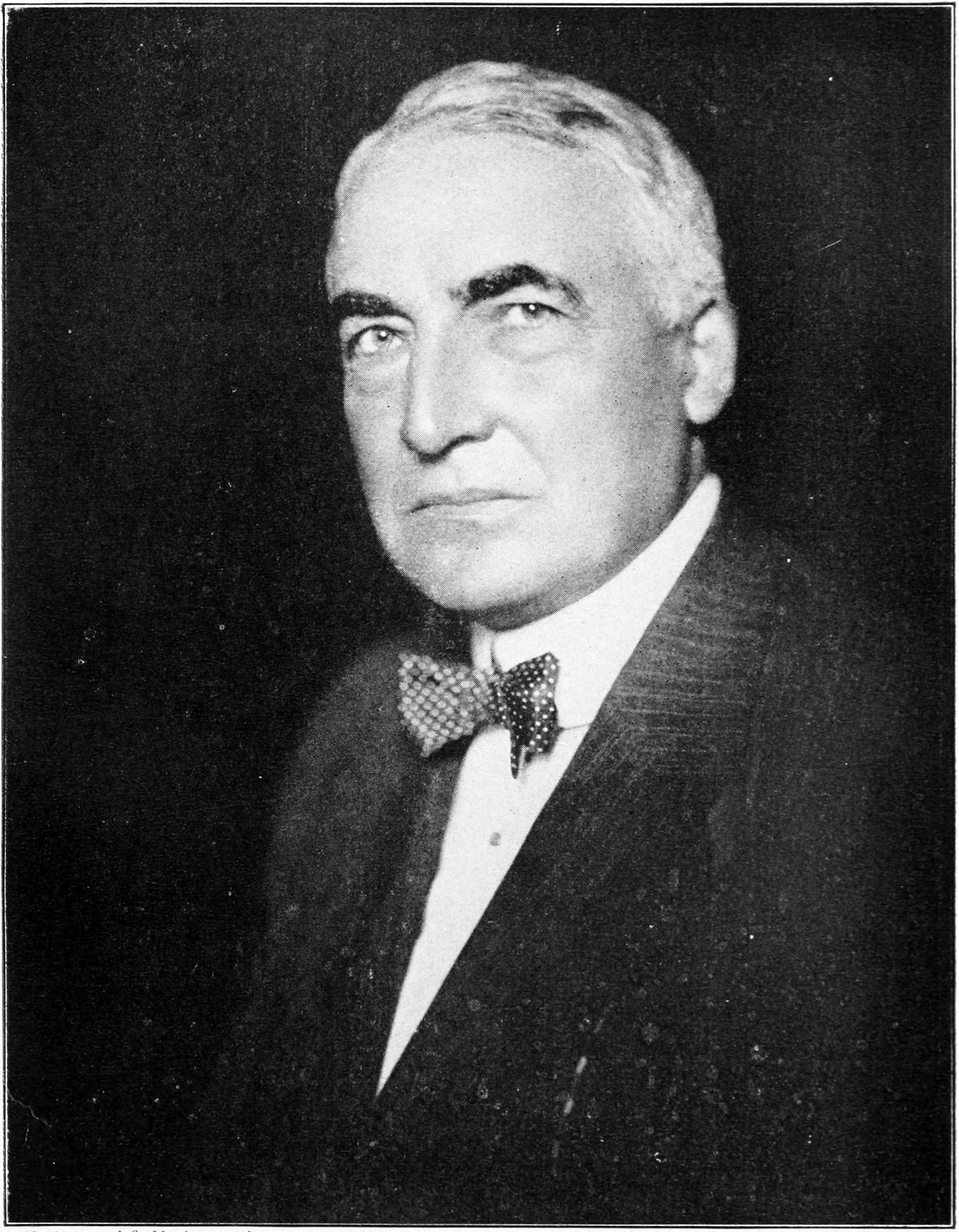 Portrait photograph of United States President Warren G. Harding